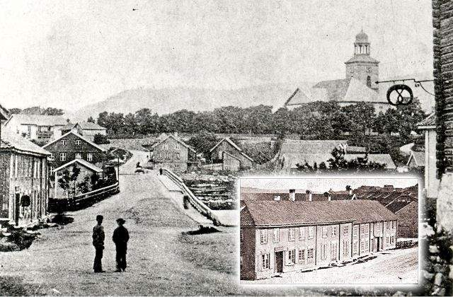 Kongsberg, looking over Nybrua up Klokkerbakken. The church is visible in the background. The inset picture shows the two left hand side buildings from another angle.